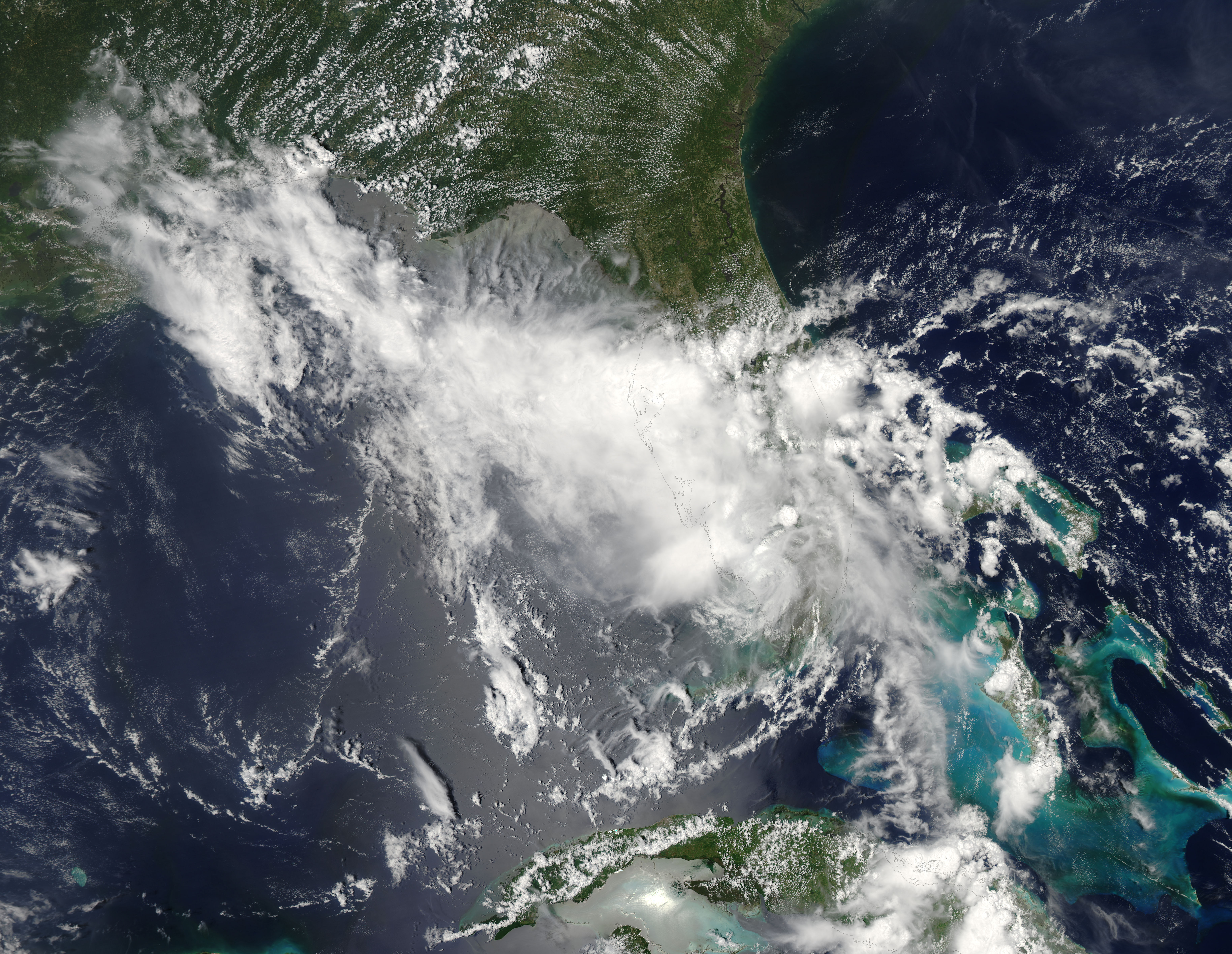 Tropical Storm Bonnie on July 23, 2010